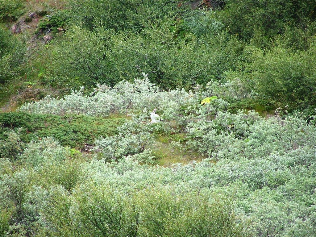 Arctic Hare, trees and bushes in Narsarsuaq, southwest Greenland. Note the vegetation: grey-leaved Salix glauca, green-leaved Betula glandulosa and the conifer Juniperus communis subsp. alpina.